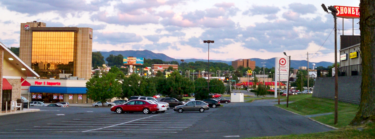 An overview of midtown Johnson City, TN centered about North Roan Street.